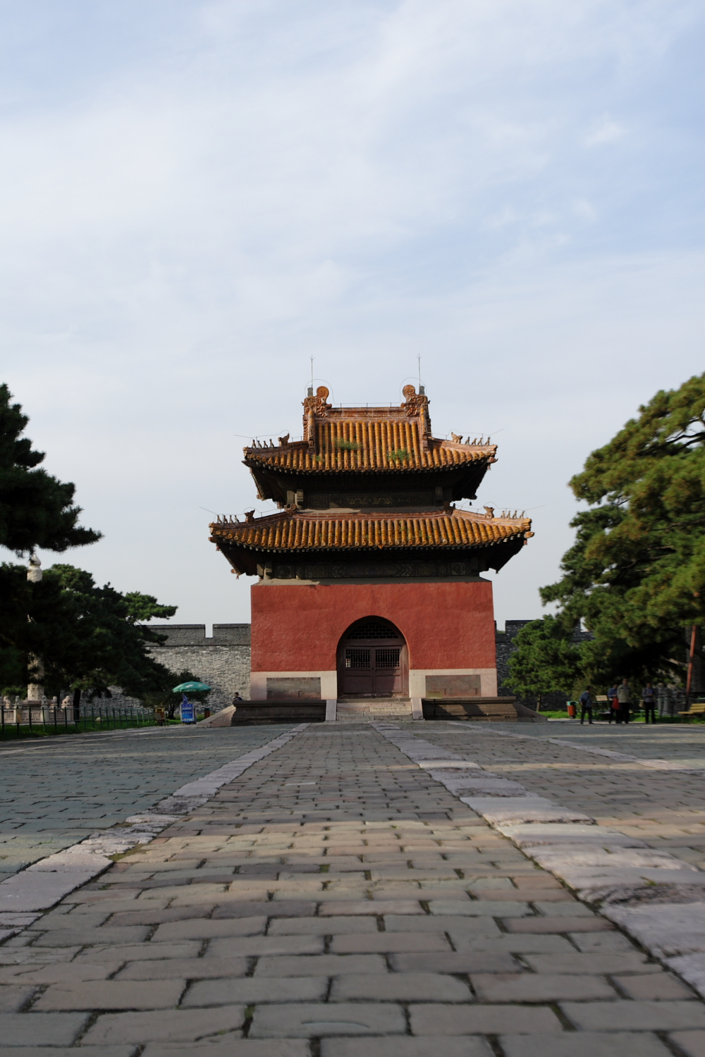 Zhaoling, Qing, Shenyang